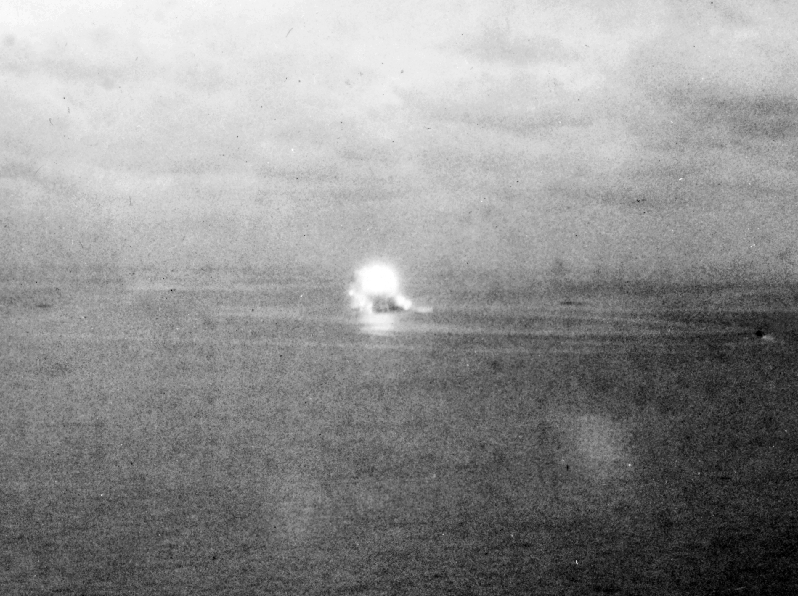 Operation "Ten-Go", 7 April 1945: The Japanese battleship Yamato capsizes and explodes sank after receiving many bomb and torpedo hits from U.S. Navy carrier planes north of Okinawa. Photographed from a plane from the aircraft carrier USS Yorktown (CV-10) (Collection of Fleet Admiral Chester W. Nimitz, USN).